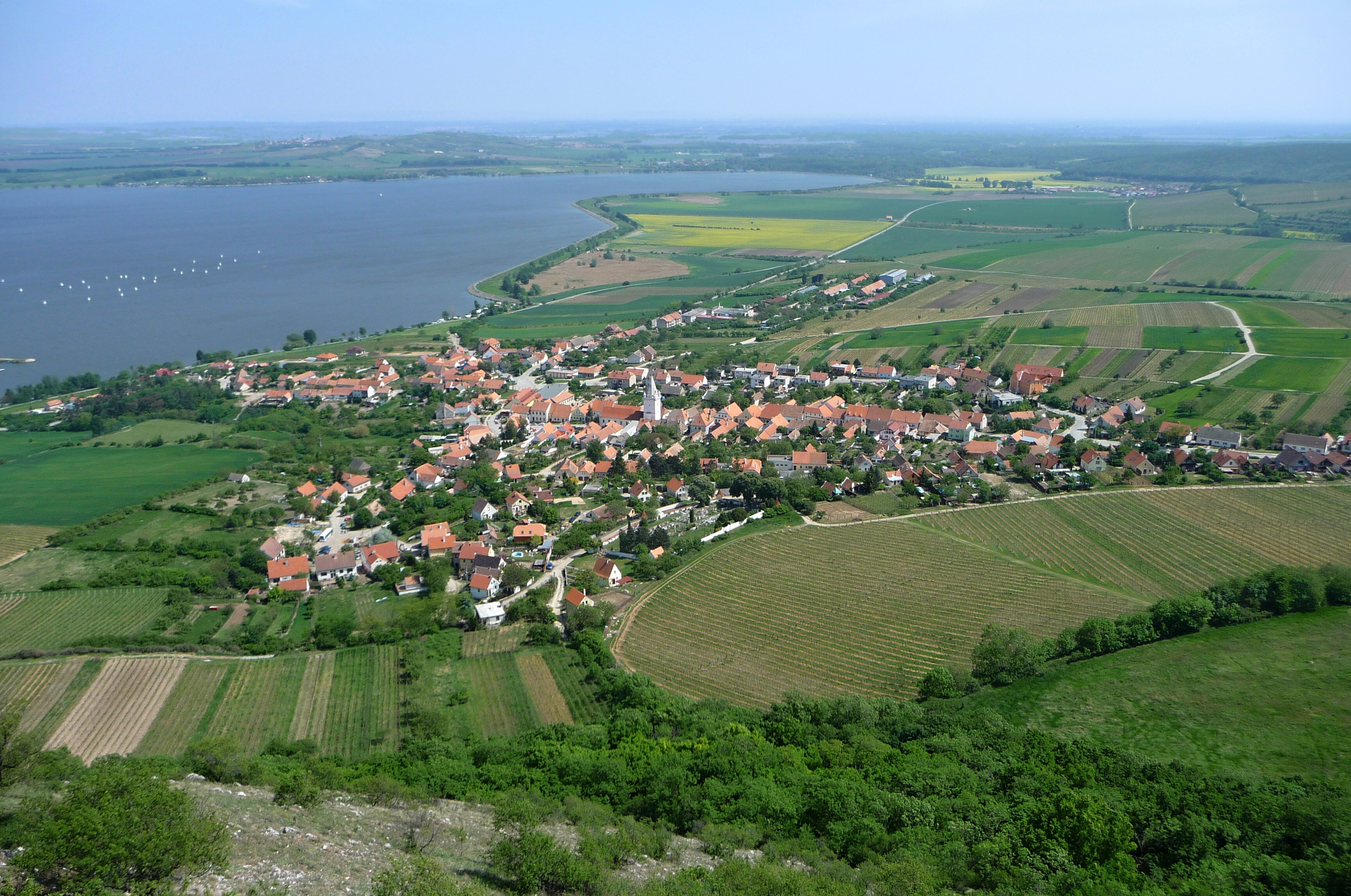 View on Pavlov from the Dívčí hrad (South Moravian Region, Czechia).